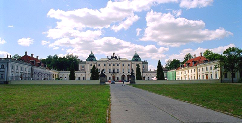 Branicki Palace in Białystok, Poland.